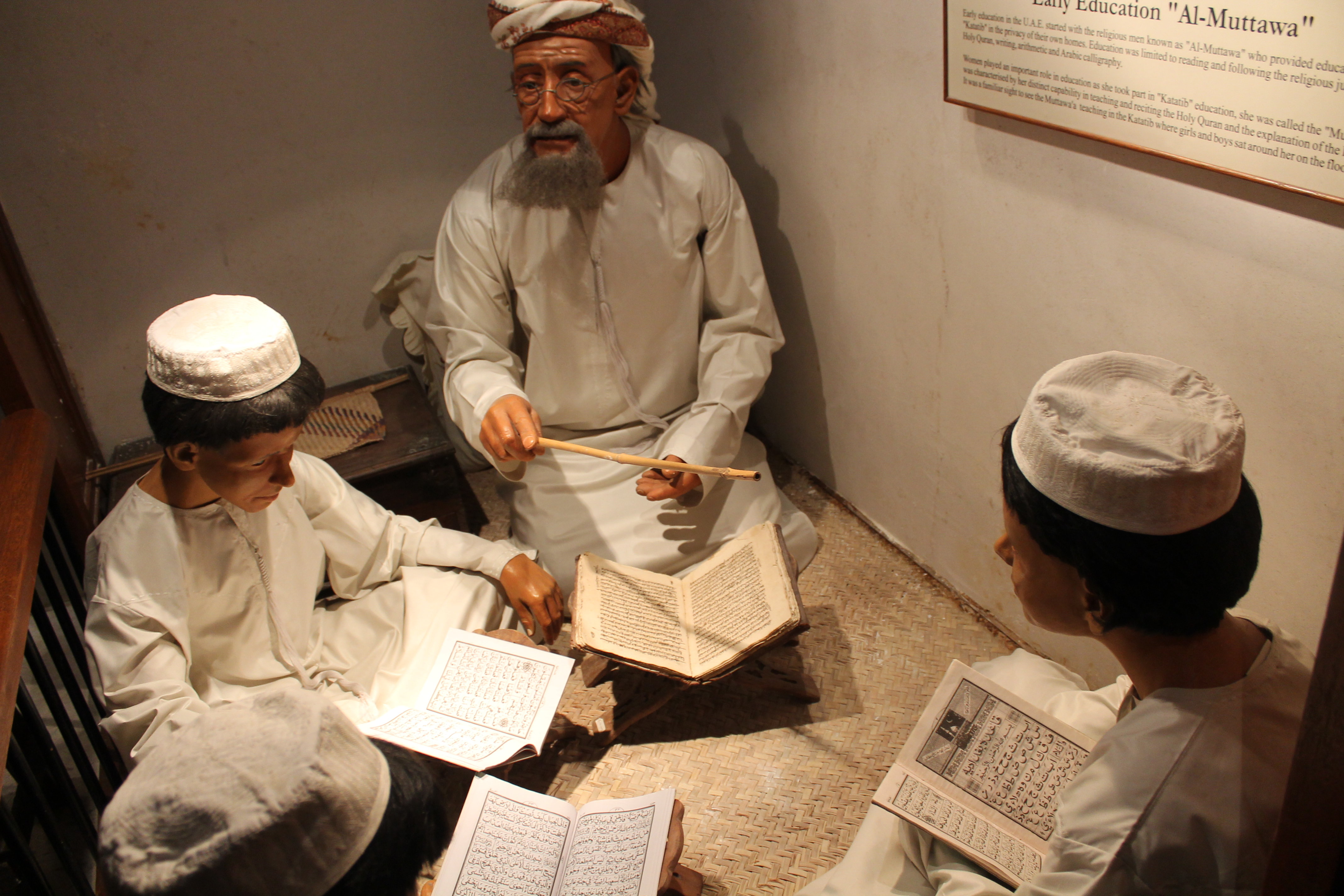 An interesting corner at today's Al Ahmadiya school showing a scene of traditional education - (Dubai Culture & Arts Authority)